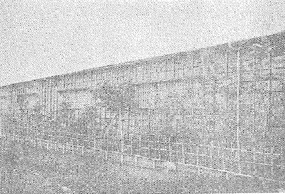 This is the school buiding of Japan Women's Professional School of Physical Education in Setagaya, Tokyo, Japan.